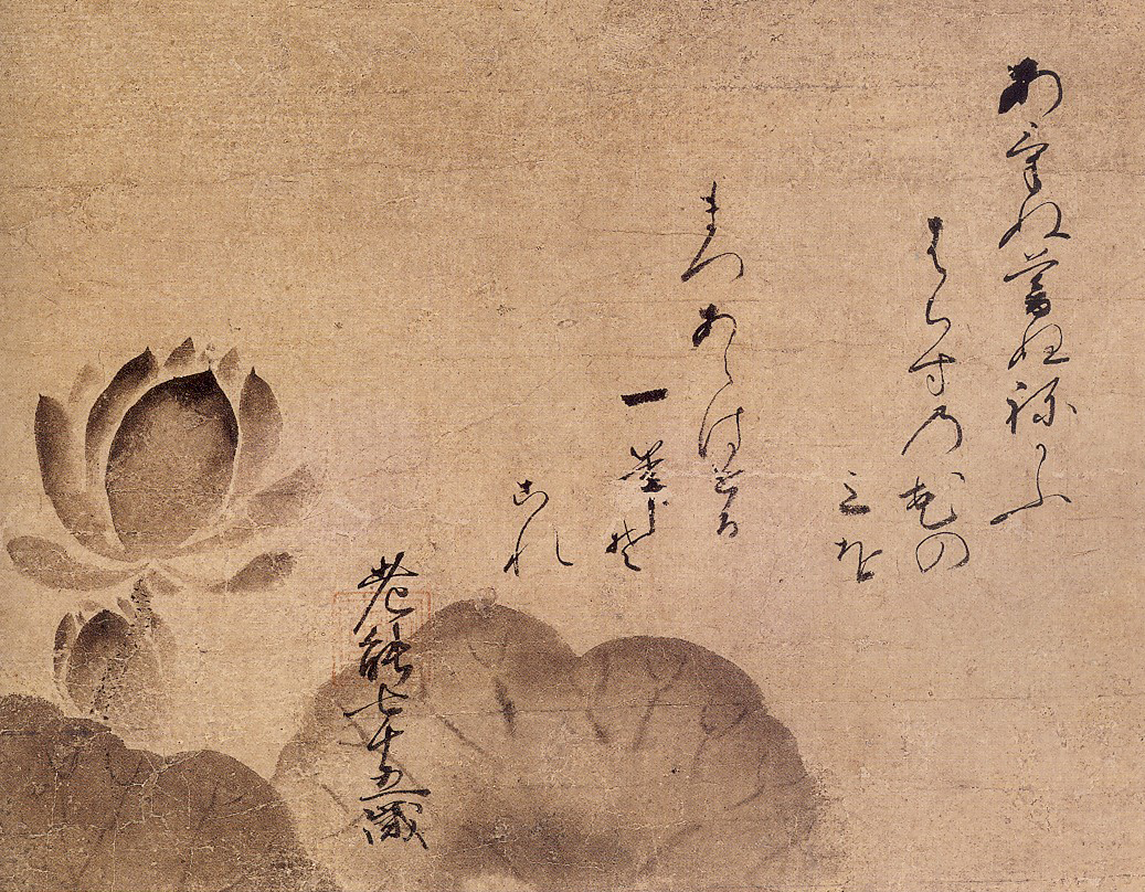 Lotus, by Noami, Masaki Art Museum, Tadaoka, Osaka, Japan